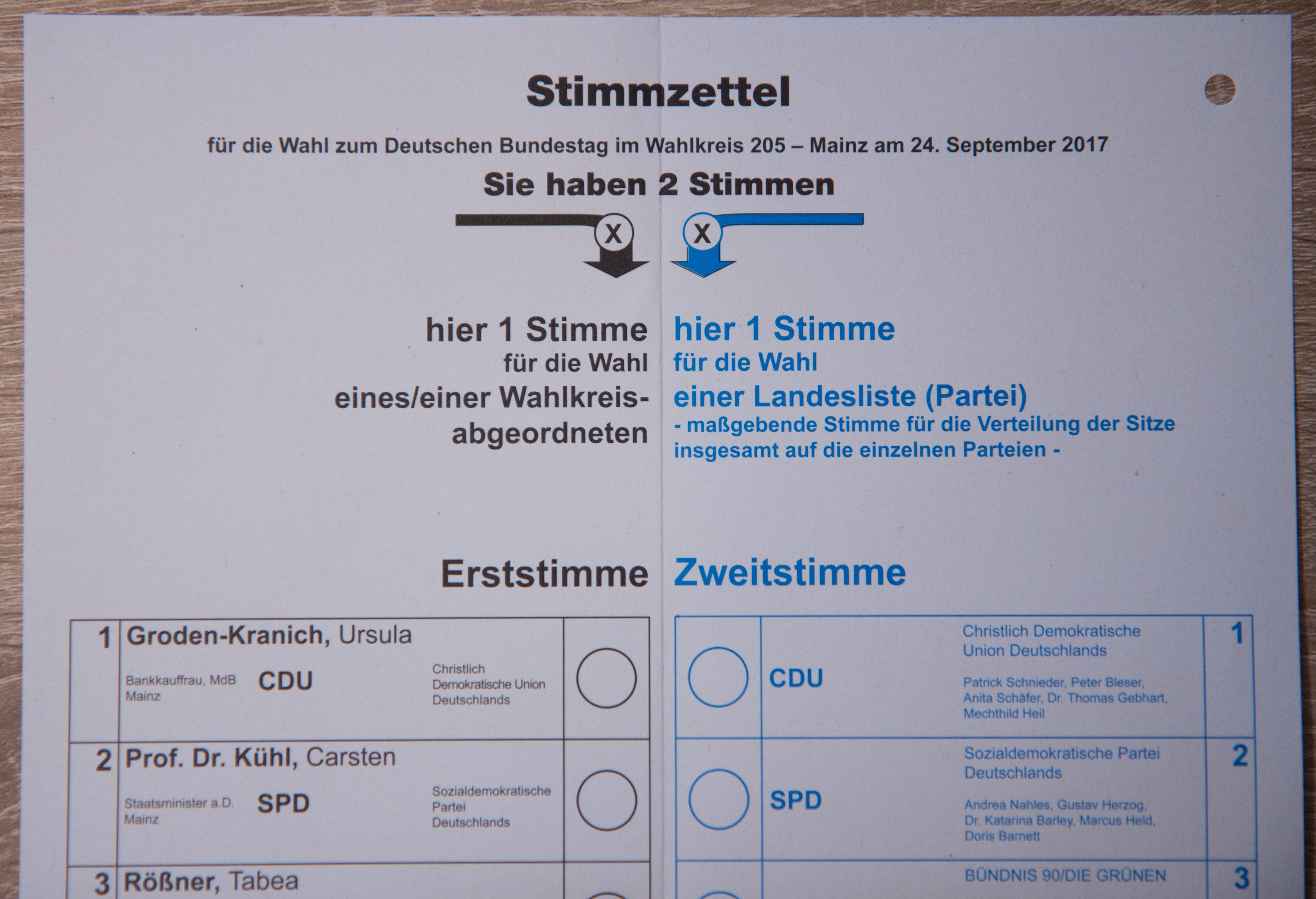 Voting ballot and envelopes for the German federal election, 2017 (partial view)